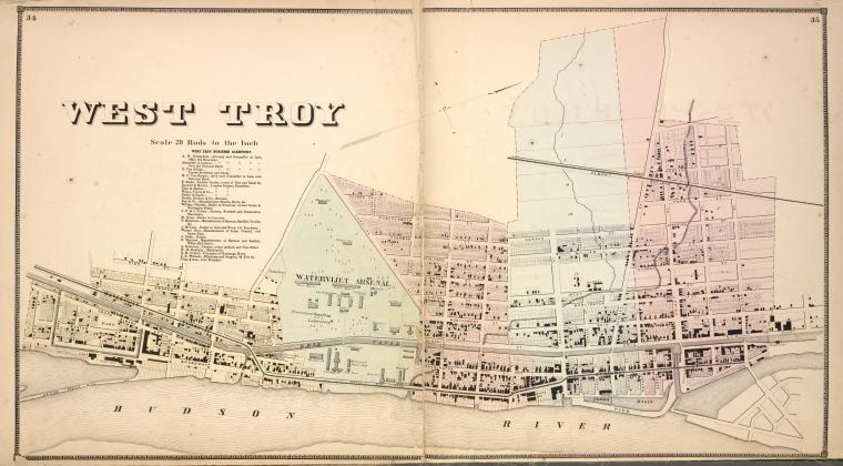 Map of Watervliet, New York in 1866, when it was known as the village of West Troy